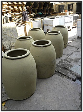 Clay Pots